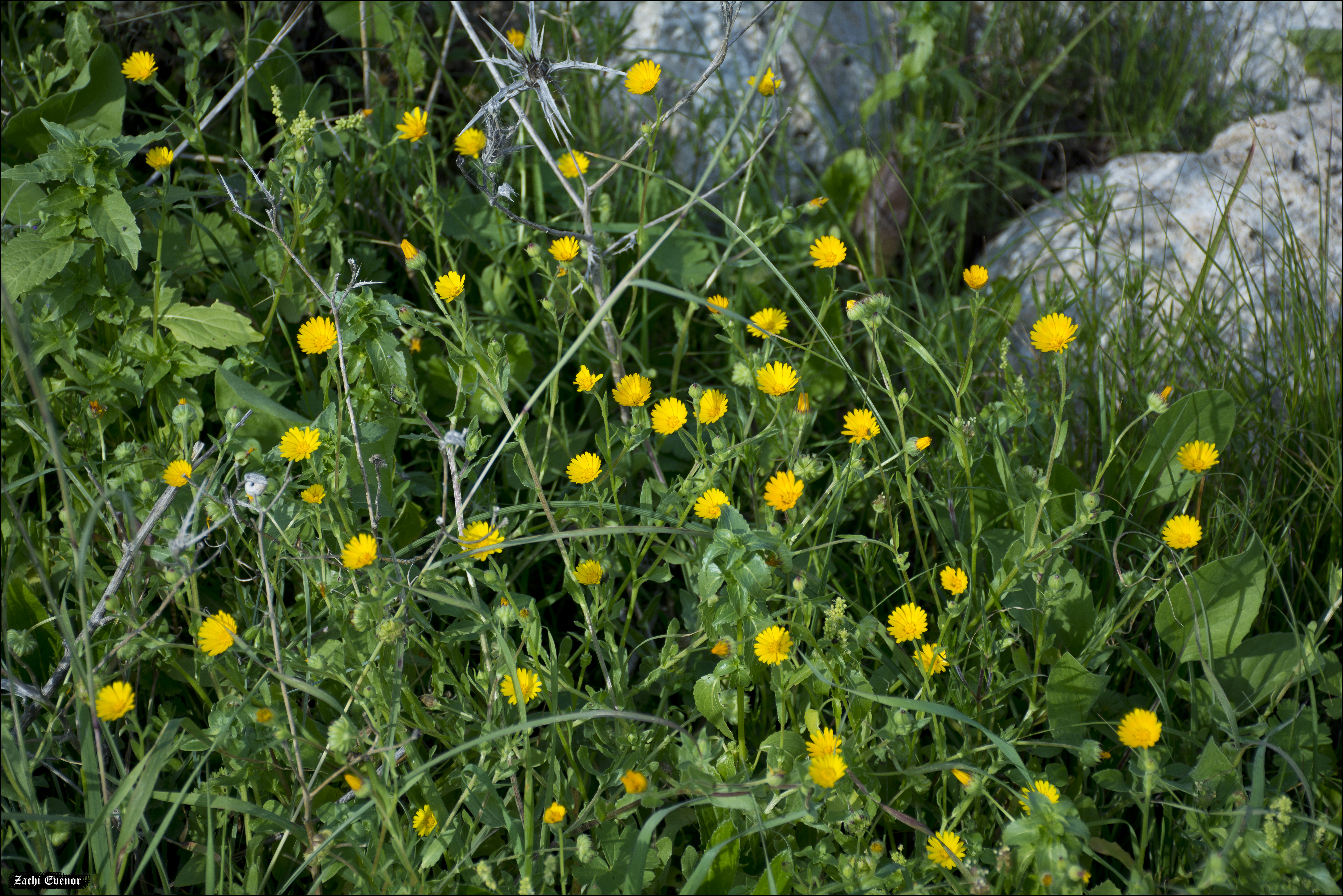 Calendula arvensis, Tel Sharisha, Israel